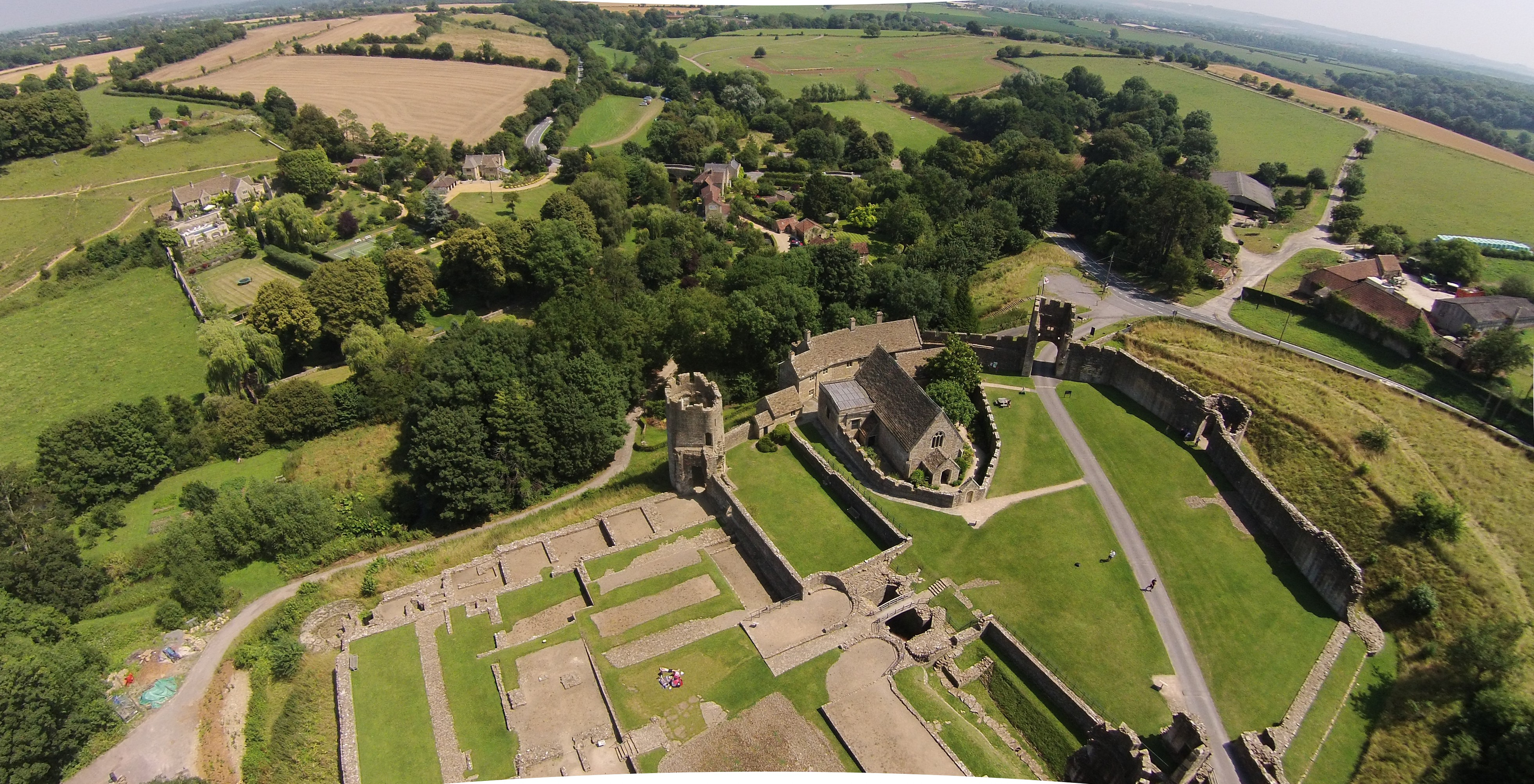 CHAPEL OF ST LEONARD, PERIMETER WALL AND GATEWAY FARLEIGH HUNGERFORD CASTLE Wikidata has entry Q17529906 with data related to this building.